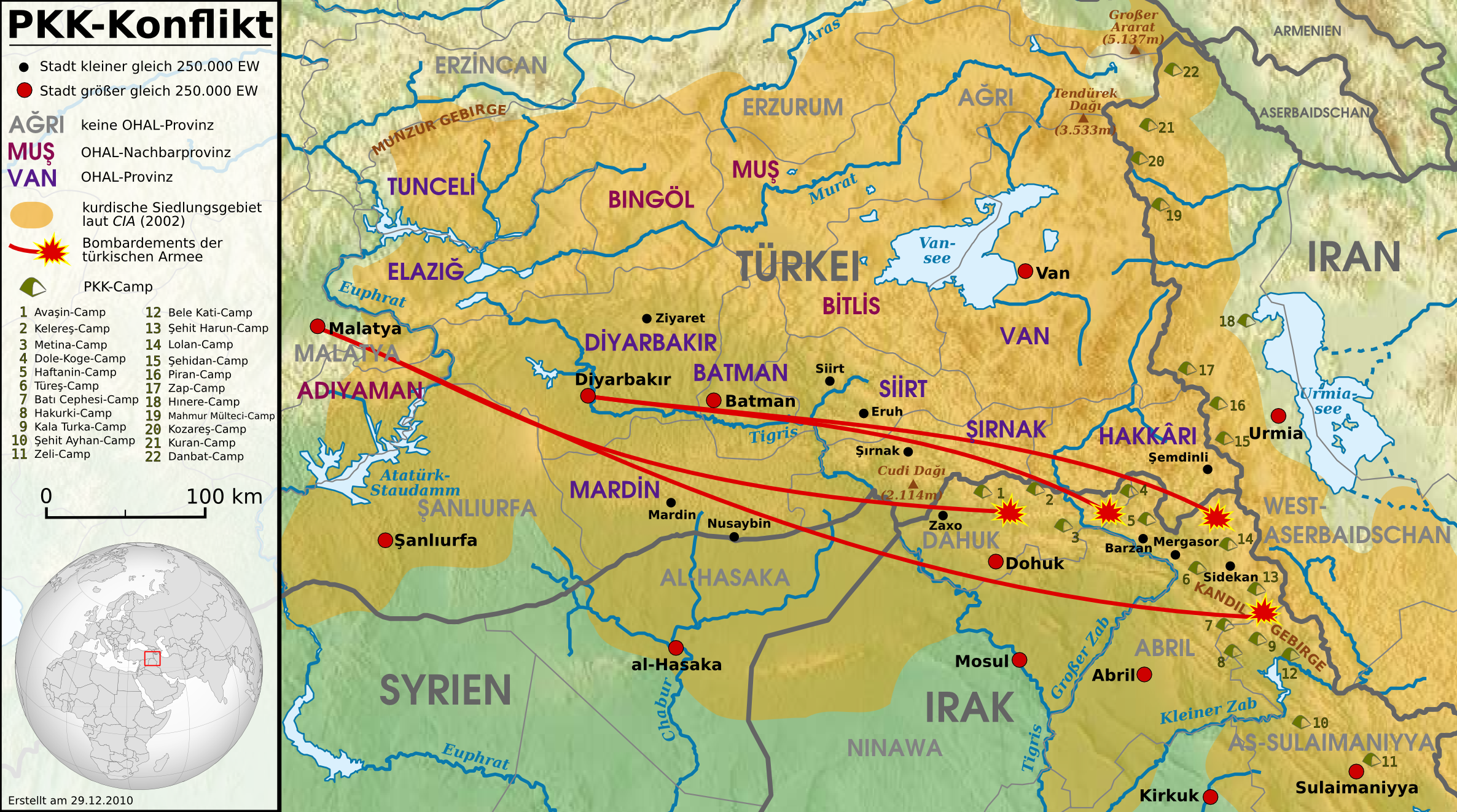 Thematic map, general view over the Turkey – Kurdistan Workers' Party conflict